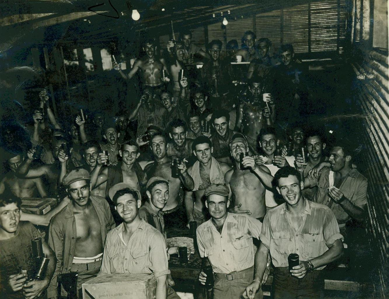 Marines celebrate Victory over Japan Day on Okinawa. From the Philip Bernstein Collection (COLL/3340), Marine Corps Archives & Special Collections OFFICIAL USMC PHOTOGRAPH